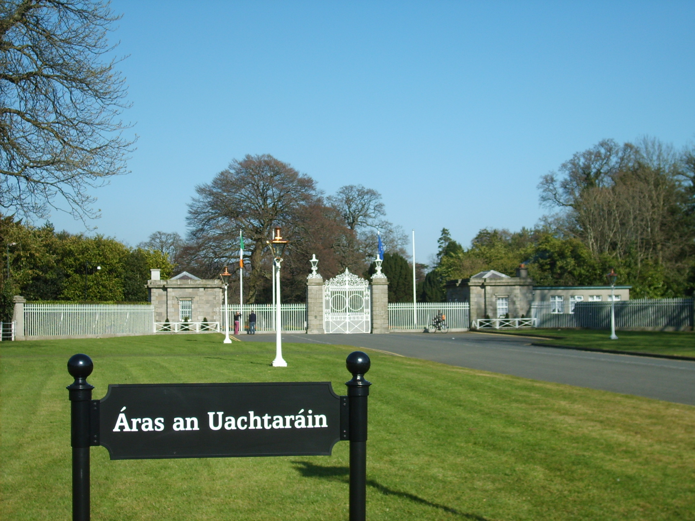 "Author is me" (User:Noelfirl), picture is of gates to Áras an Uachtaráin